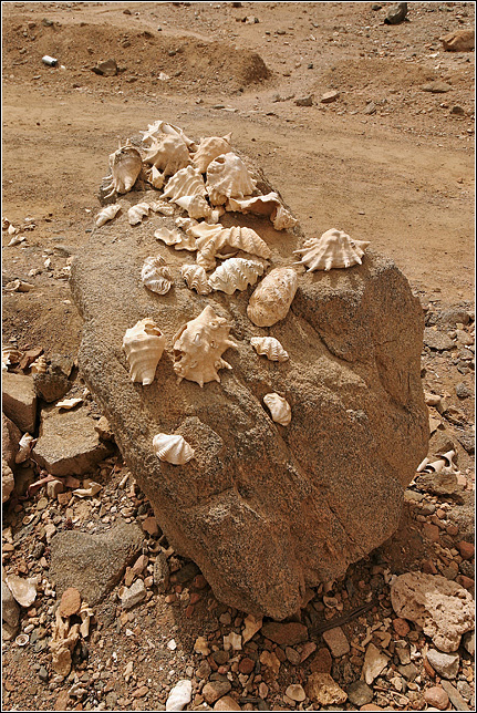 Sinai, Red sea ecological disaster - Shells fish out by beduins